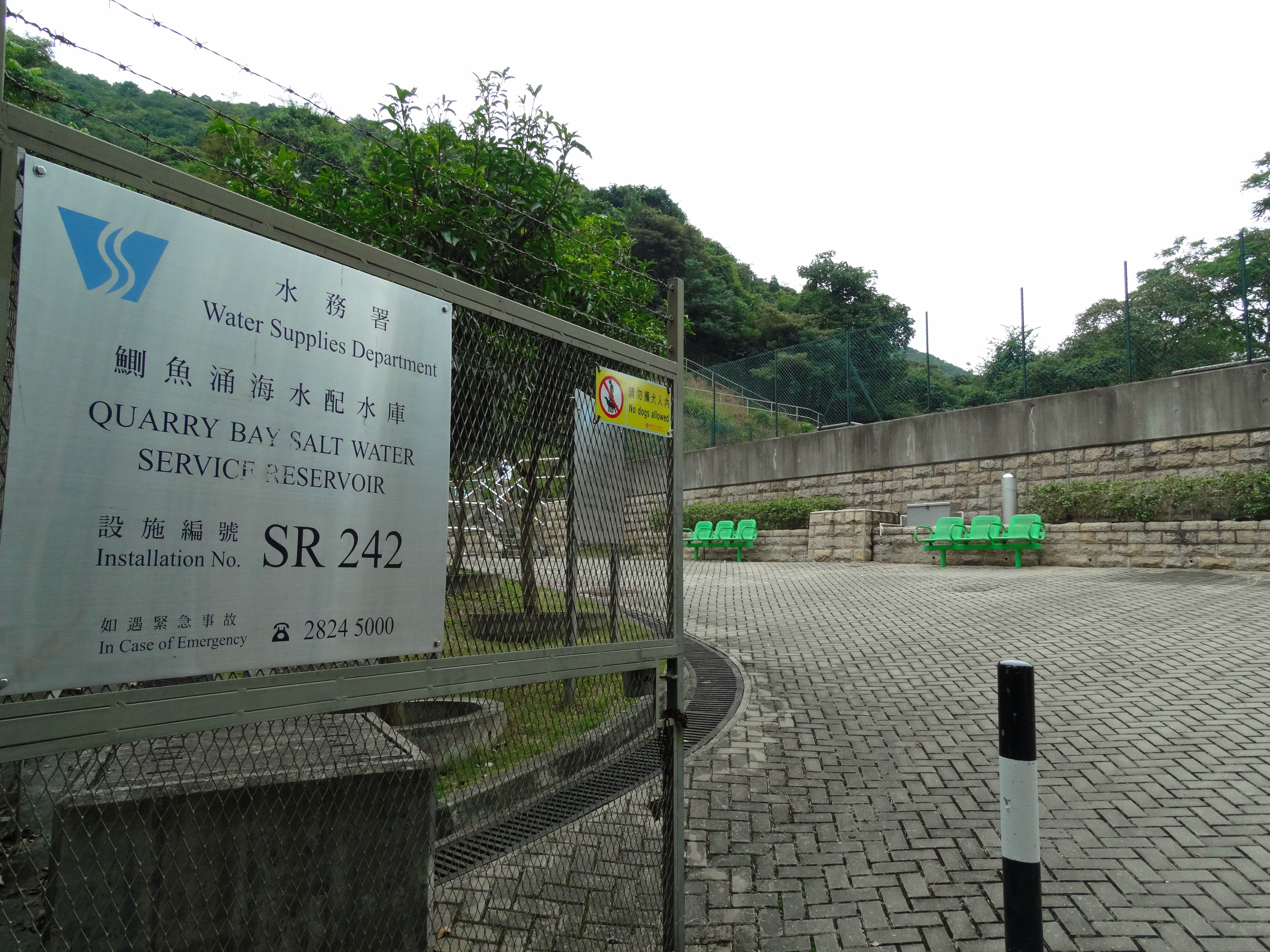 Quarry Bay Salt Water Service Reservoir, Hong Kong.